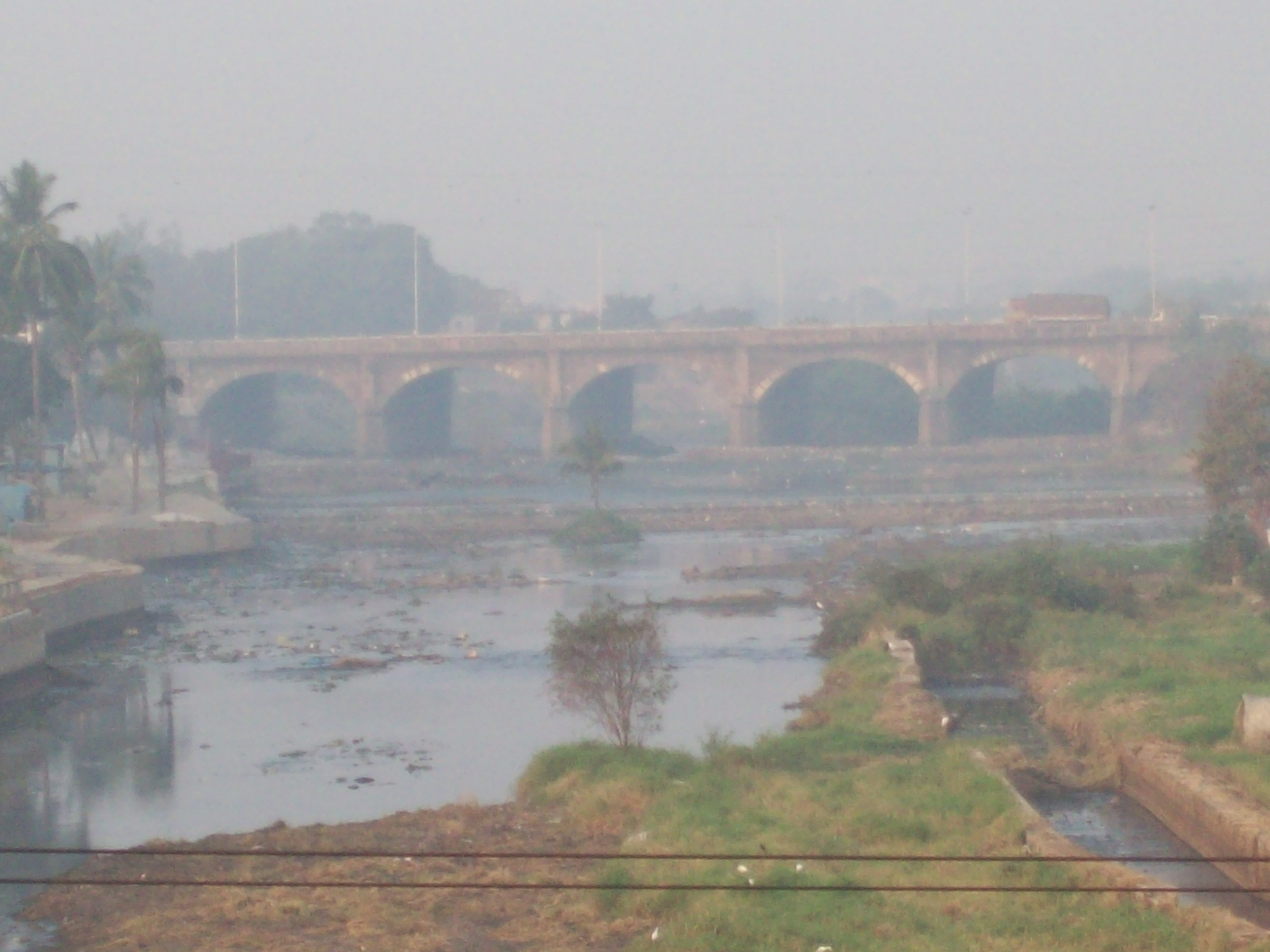 A view of River Musi from Naya Pul, Hyderabad.